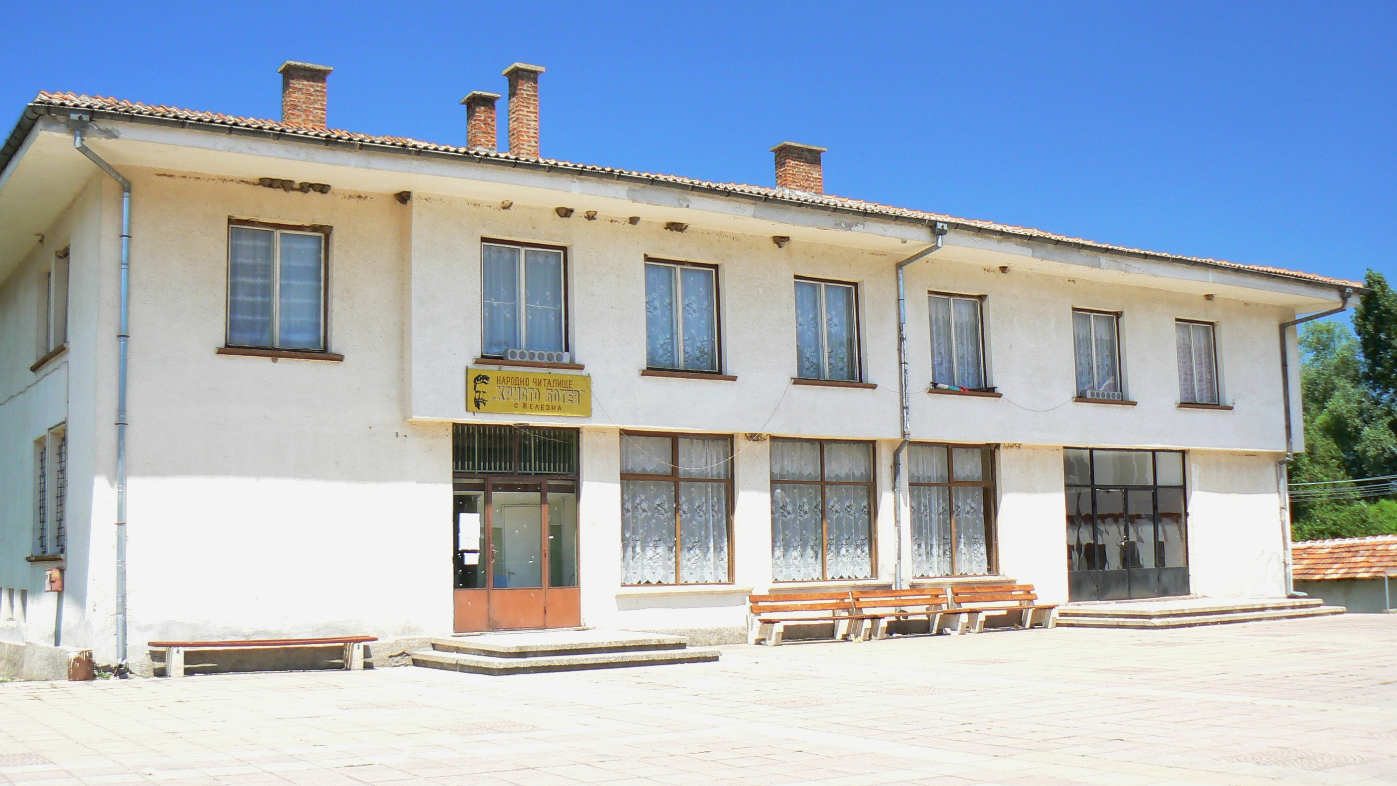 Library "Hristo Botev" in village Zhelezna, Bulgaria